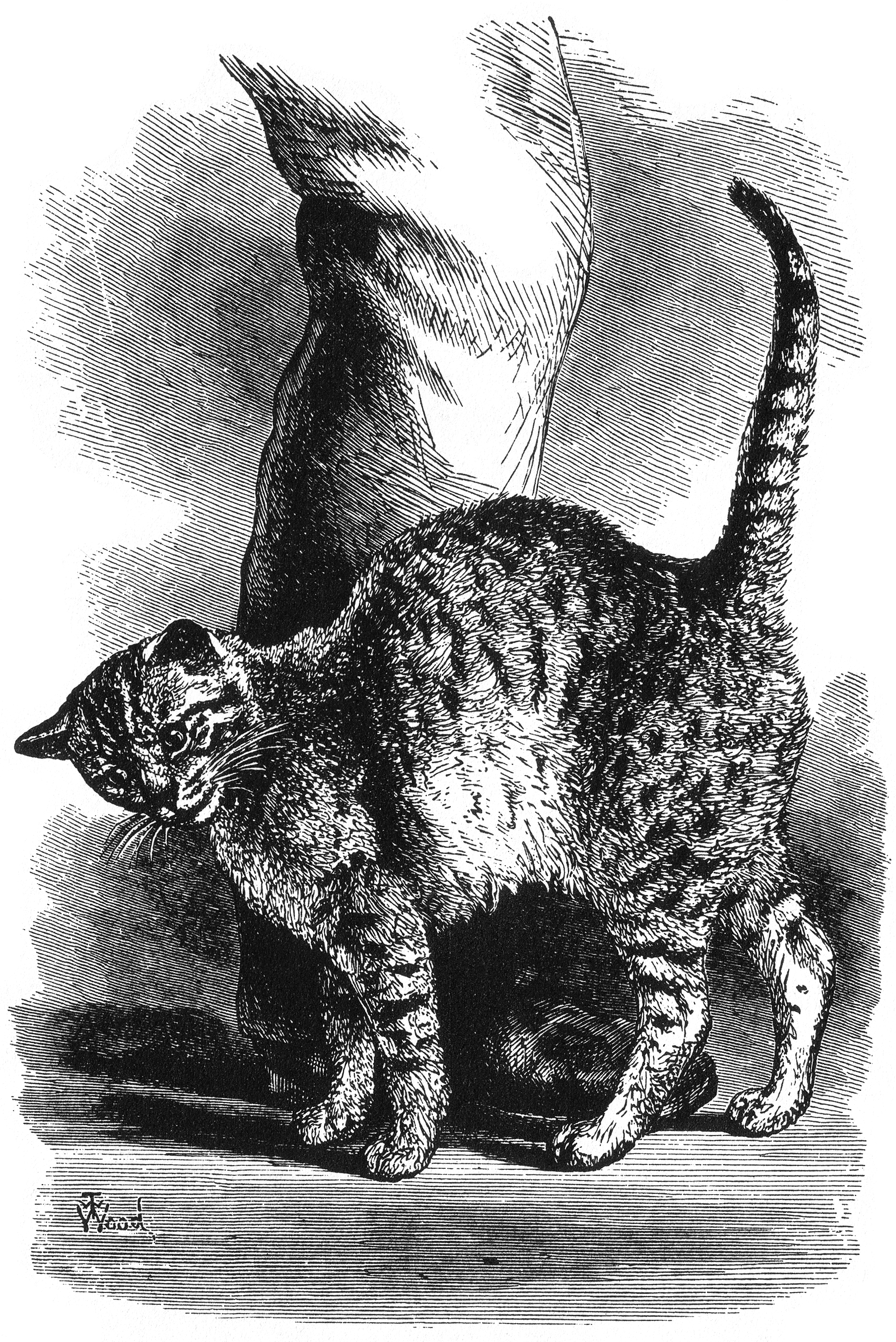 Figure 10 from Charles Darwin's The Expression of the Emotions in Man and Animals. Caption reads "FIG. 10.—Cat in an affectionate frame of mind, by Mr. Wood." Author's signature is at bottom left. See also figures 9-15 and 18 by the same author, especially figure 9 of a more aggressive looking cat. Version with caption available in history.